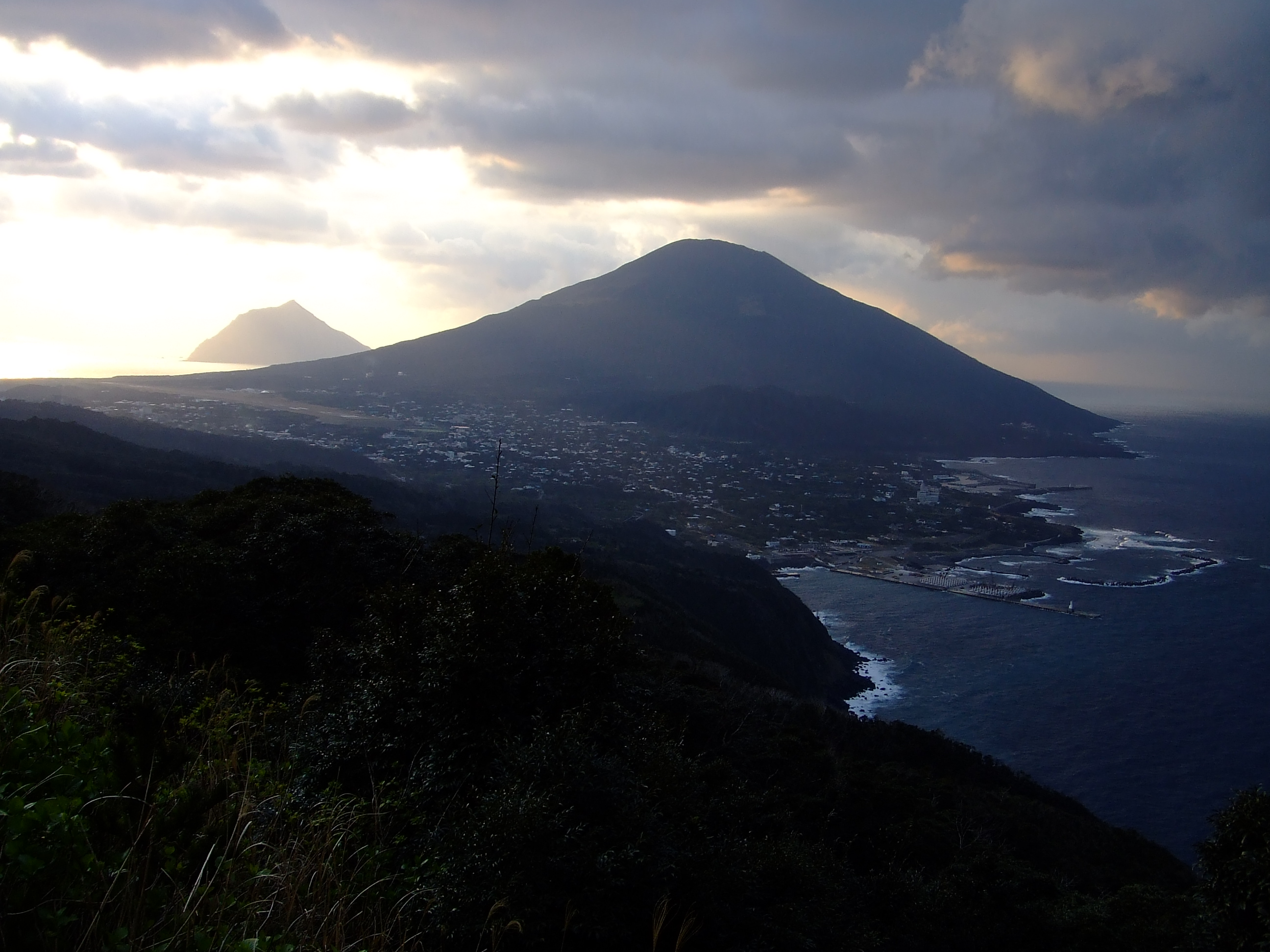 The view of Mt Hachijo-Fuji and Hachijo Kojima from the Noboryoupass on Hachijo-jima in Japan. I took the photo with a digital camera on 16th March 2007.